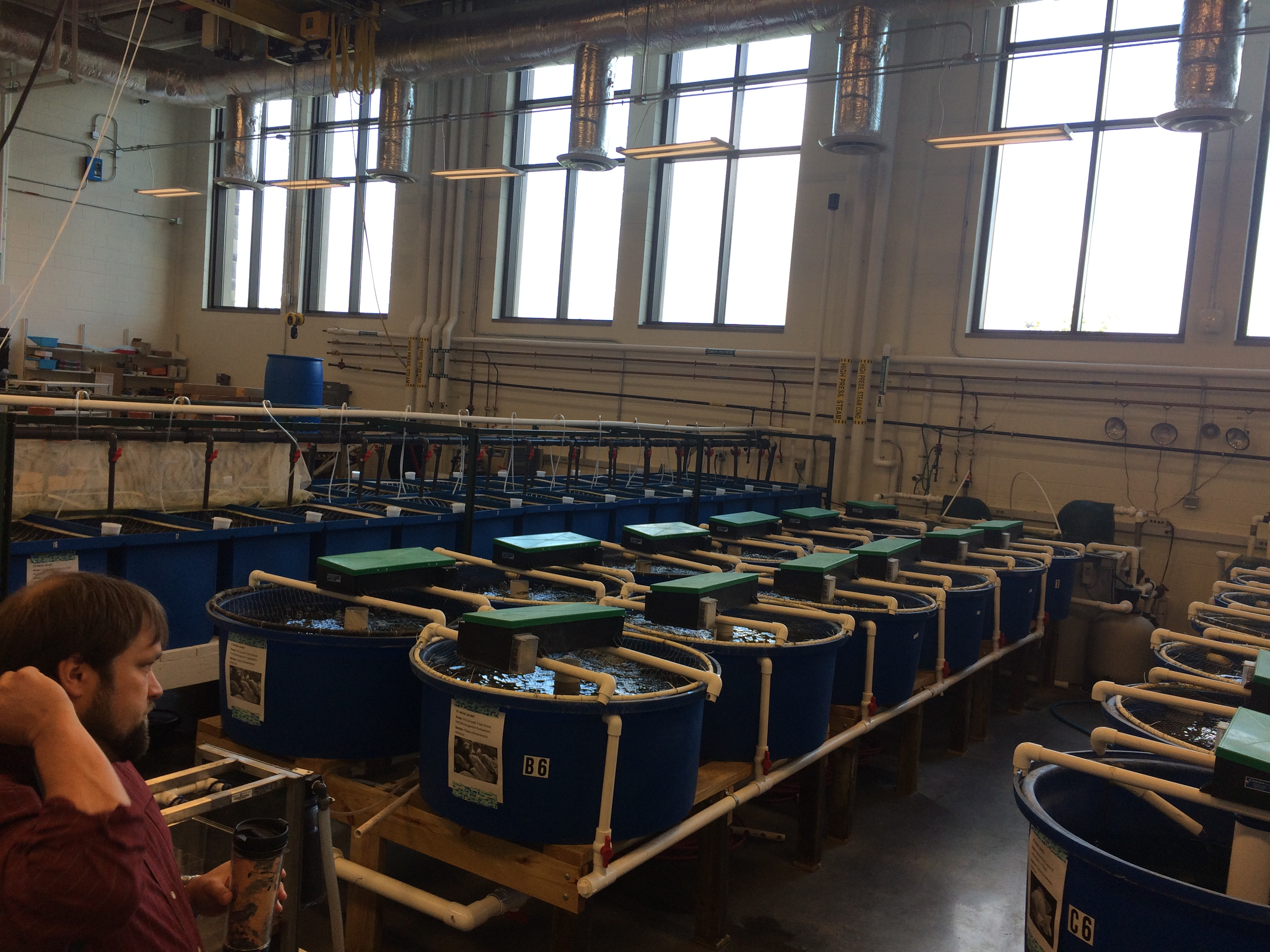 Recirculating Aquaculture System.